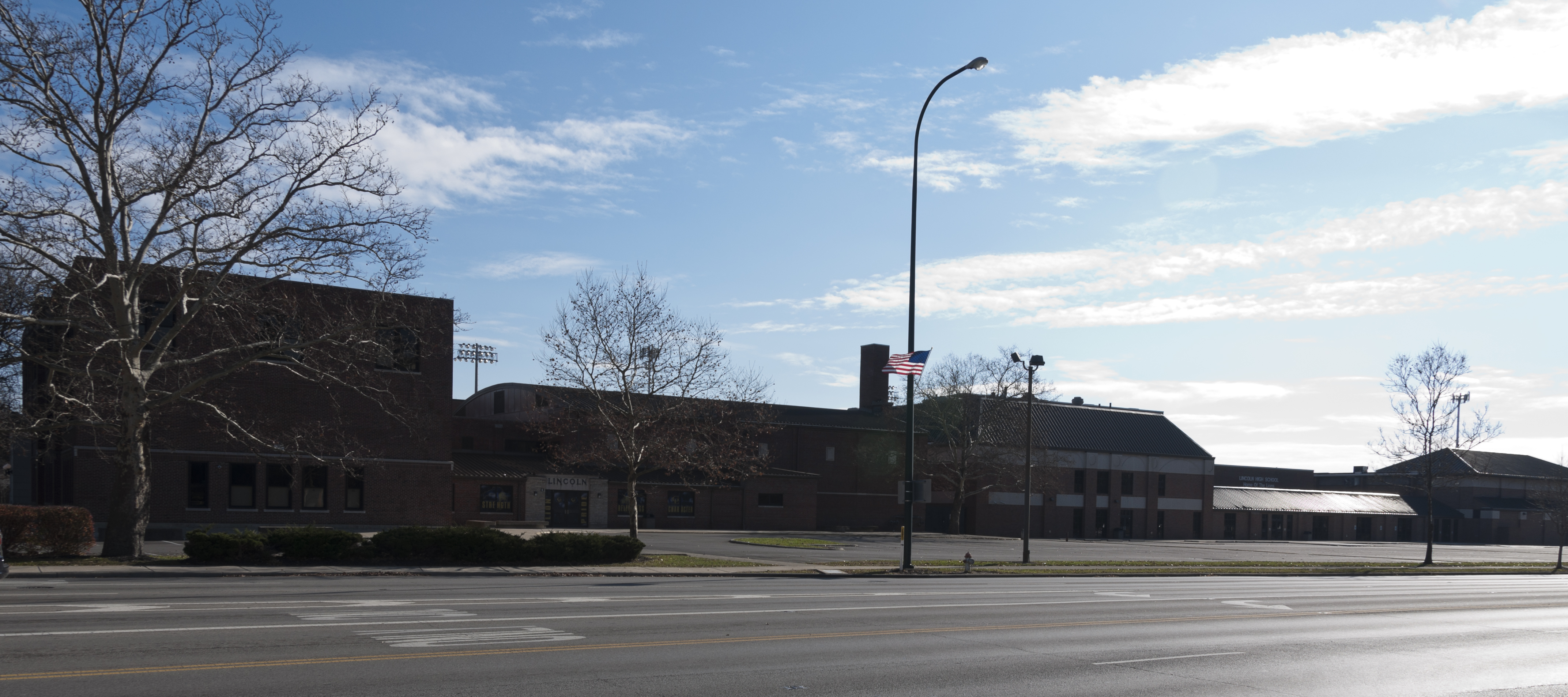 Gahanna Lincoln High School commonly just called Lincoln High School taken on Hamilton Rd. seen from the northwest. This is a large High School with over 2000 students every year.